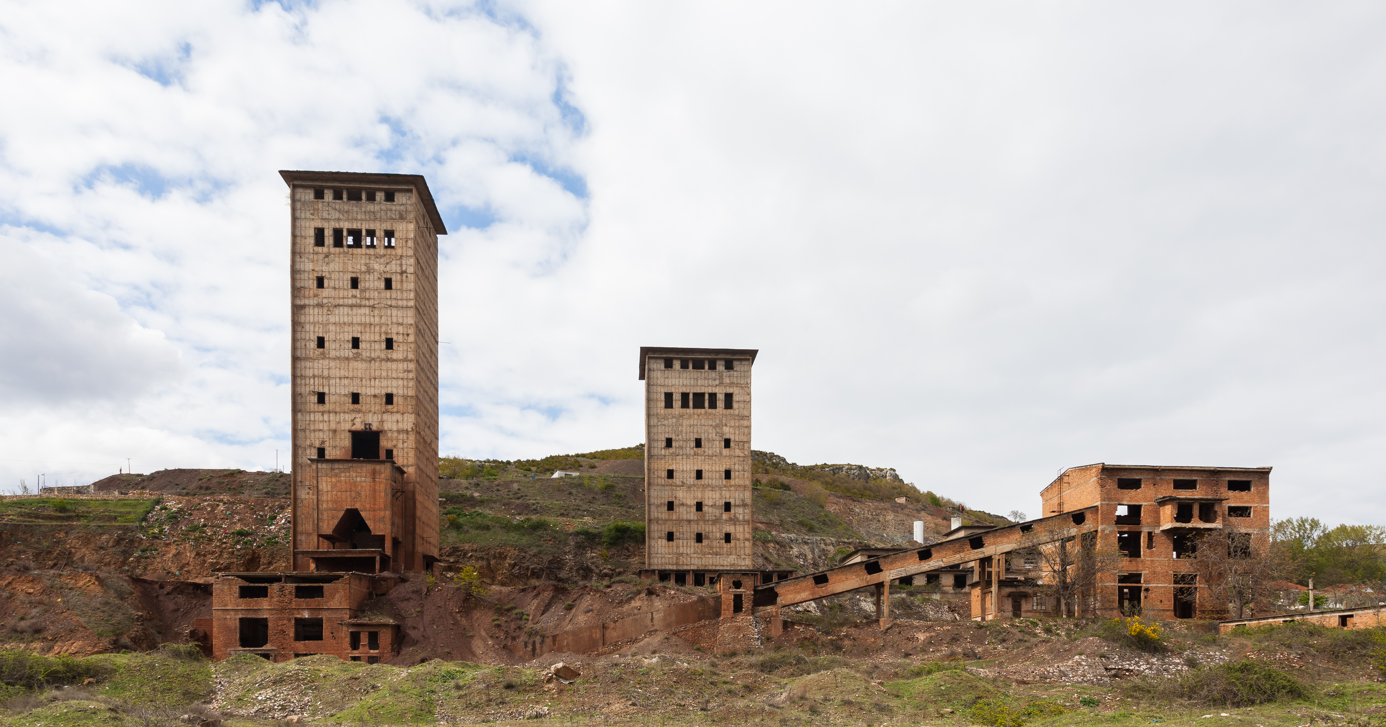 Abandoned chrome mine, Perrenjas, Albania